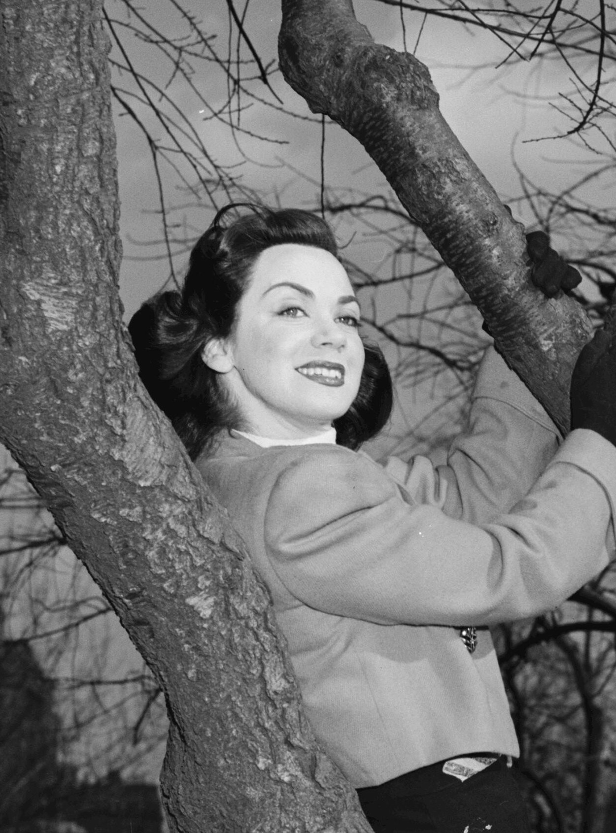 Kitty Kallen, Central Park, New York, N.Y. cropped from a photo of her with Doris Day